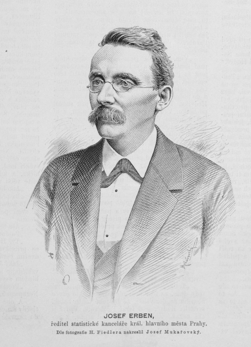 Portrait of Josef Erben (1830-1910), Czech statistician. Based on a photograph taken by Josef Fiedler (1866-1937).